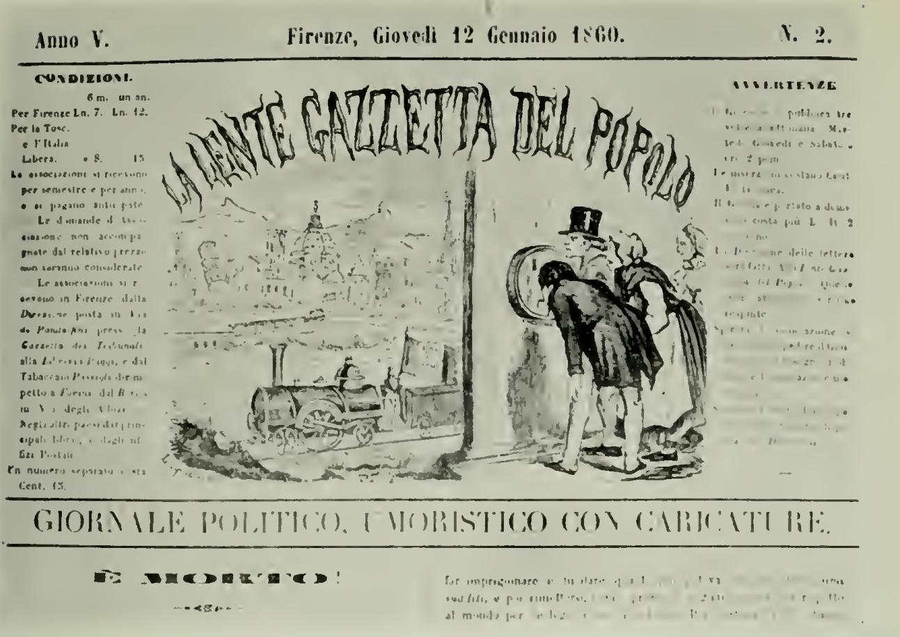 first page of humoristic newspaper La Lente 12 january 1860